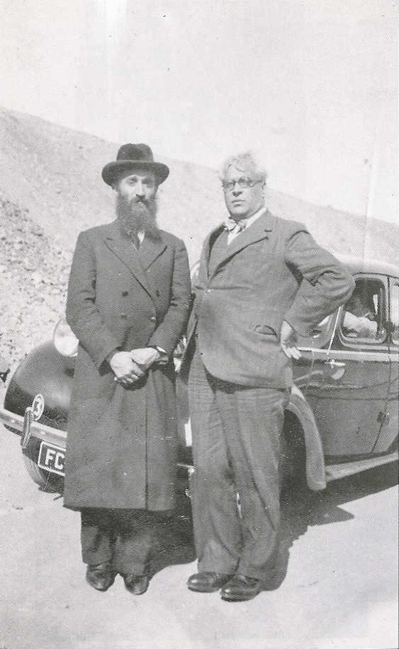 This photo shows refugee representative and advocate Rabbi Chaim Kruger with Holocaust rescuer and hero Dr. Aristides de Sousa Mendes, following the rescue operation of June 1940 in which they both took part.